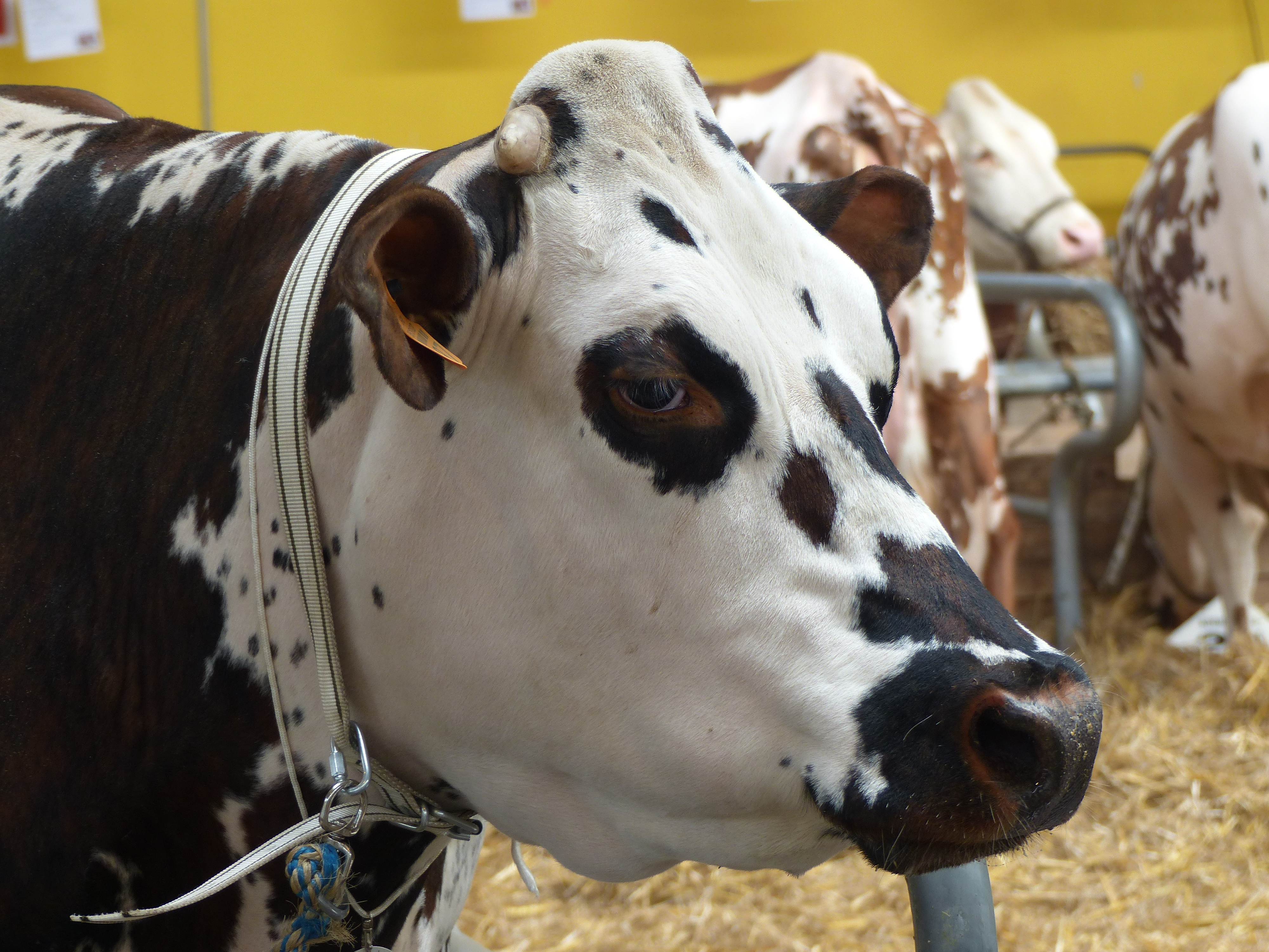 Normande cow portrait at agricultural contest "Ohh la Vache" 2017, Pontivy, Brittany